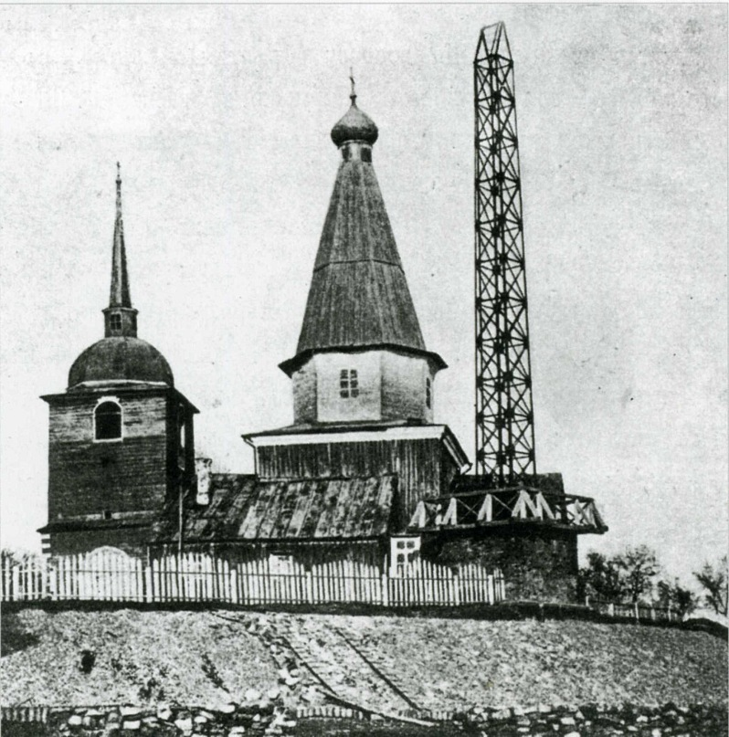 Churche of Dormition of the Theotokos in Kuritsko village. Novgorodsky district, Novgorod oblast, Russia